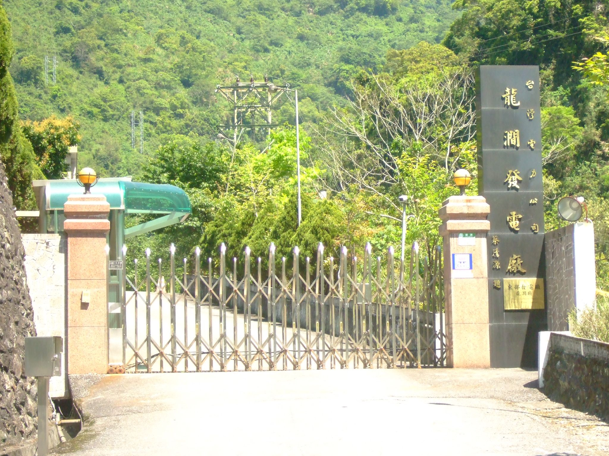 Longjian Power Plant